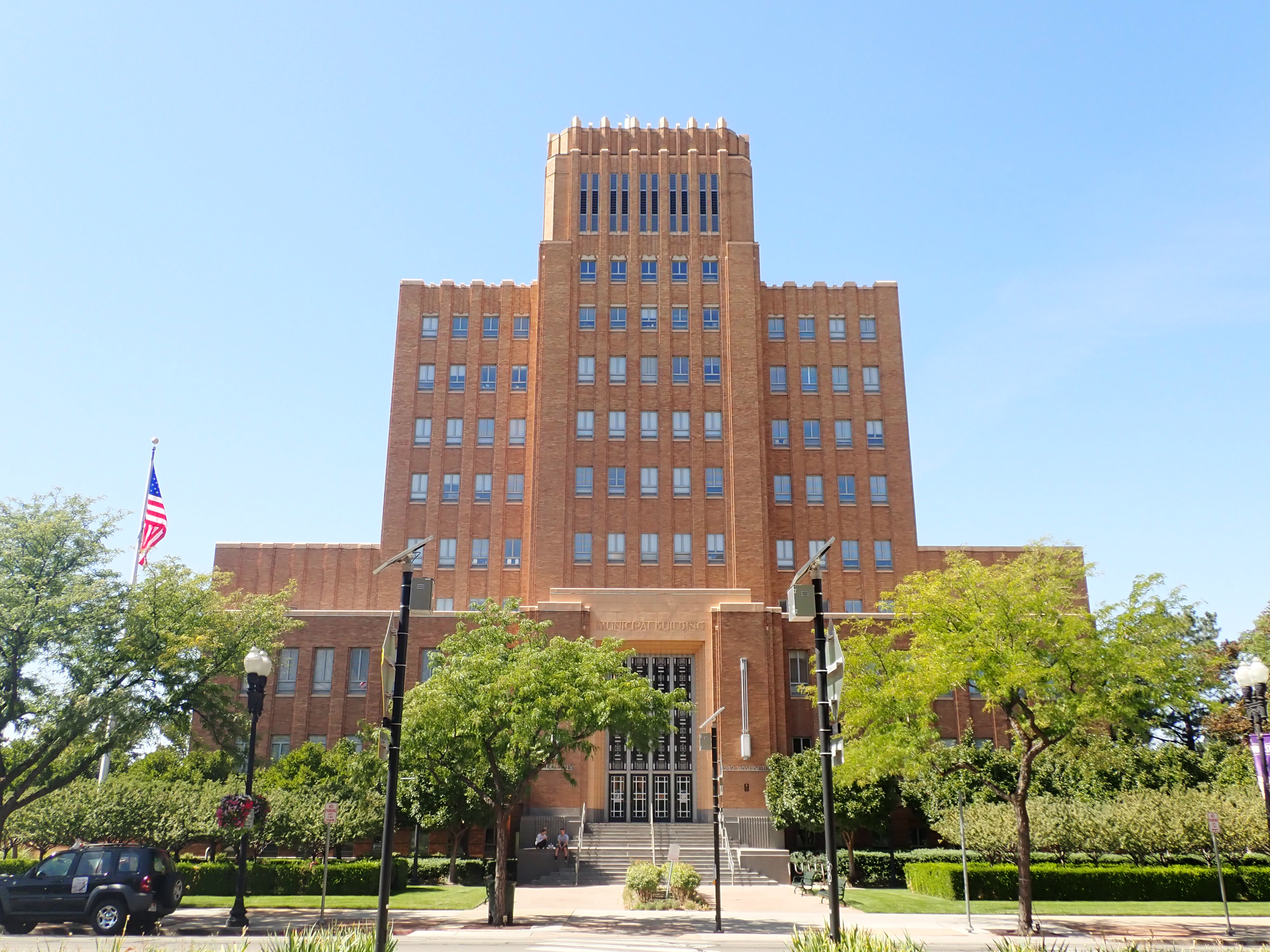 Municipal Building, Ogden, Utah, USA